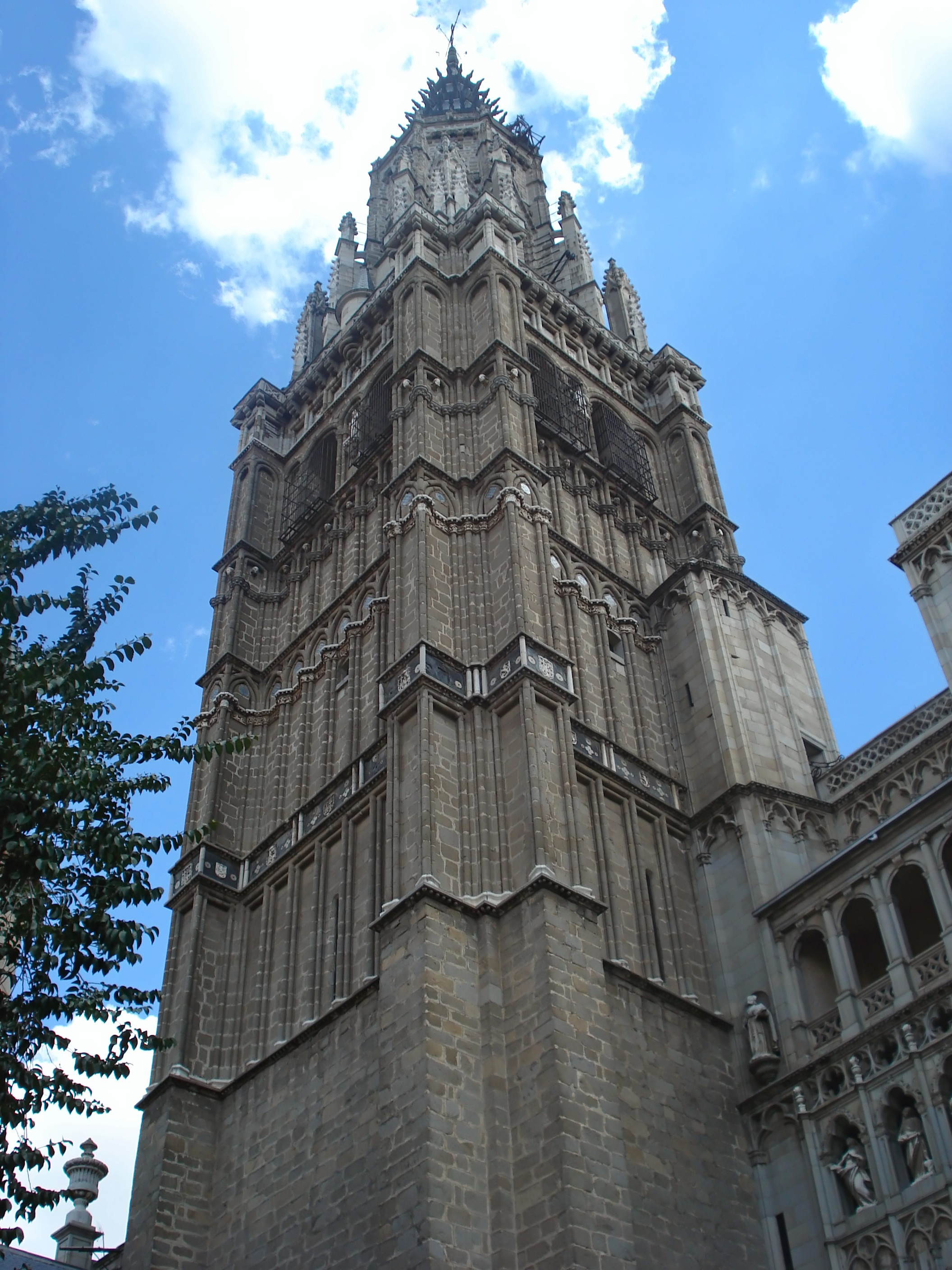 Tower of the Toledo Cathedral